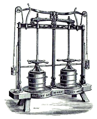 Albert Day cheese press, Mark, Somerset. Practical Cheddar Cheese-making by Dora Saker, 1917, p. 24.